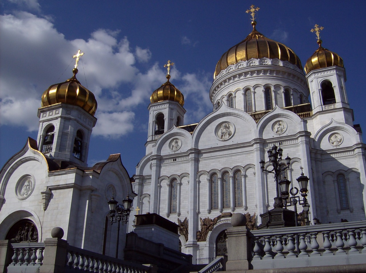 Cathedral of Christ the Saviour in Moscow